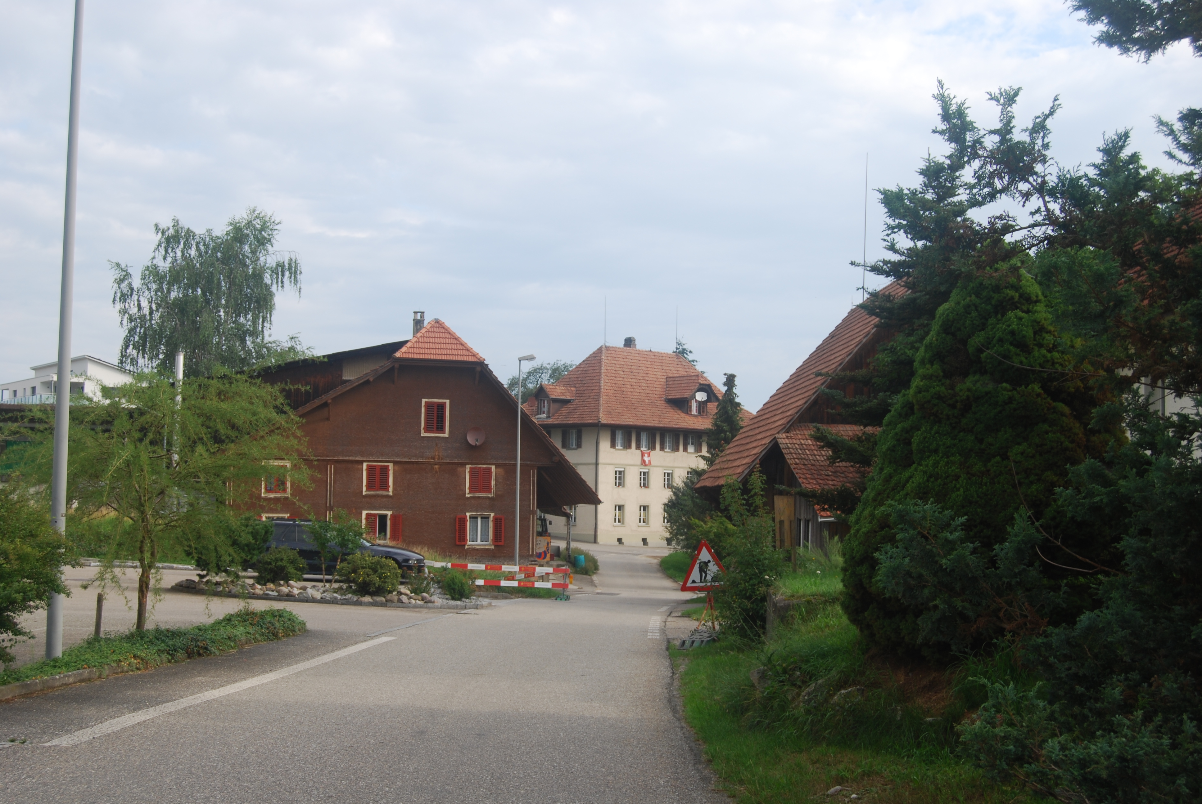 Roggliswil, canton of Luzern, Switzerland